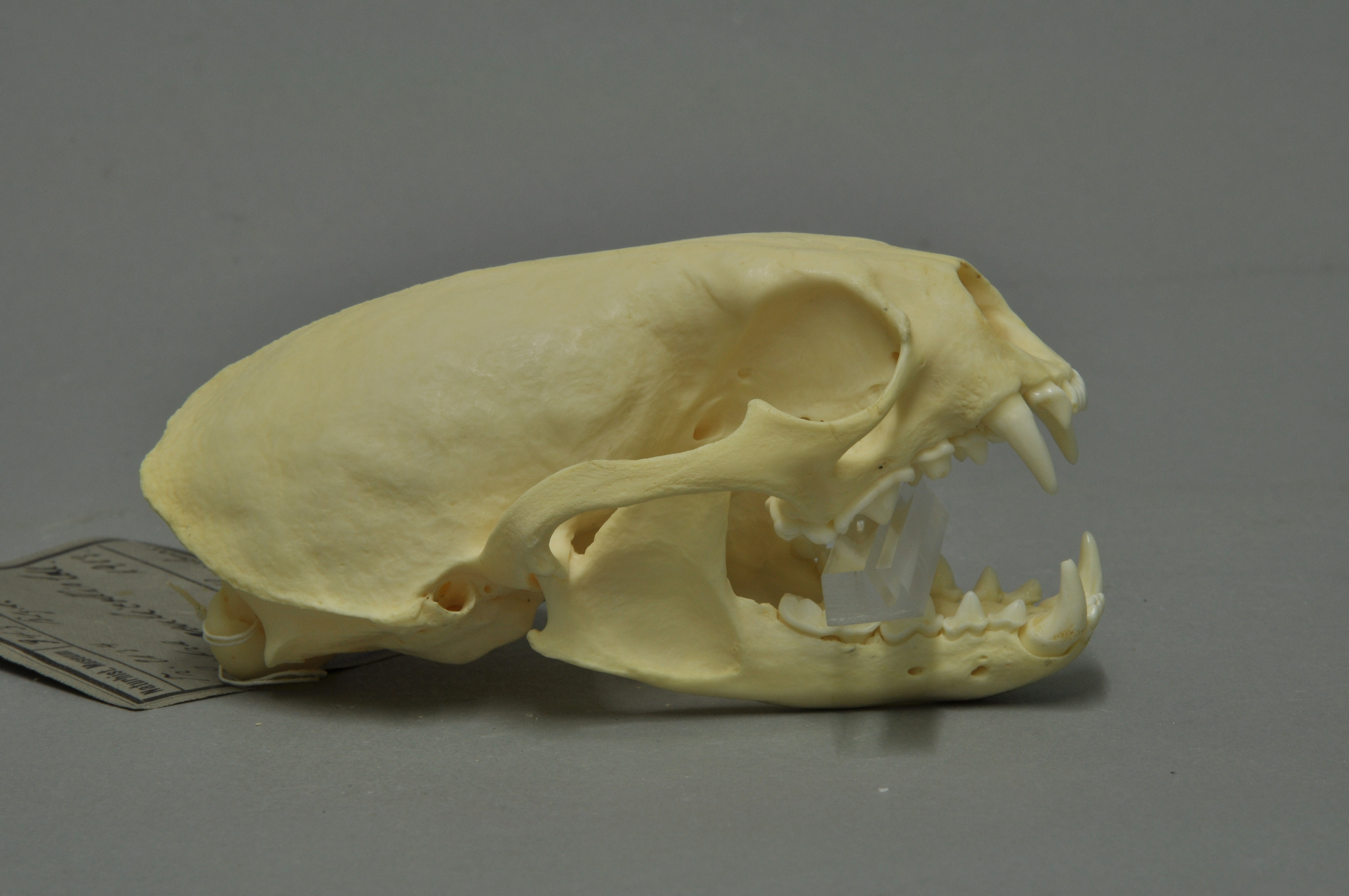 Spotted-necked otter Lutra maculicollis , skull, Coll. Museum Wiesbaden